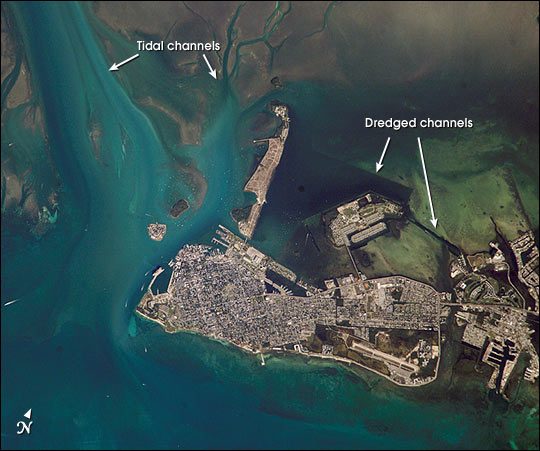 Key West, Florida - October 2002 image description here